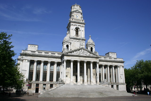 Portsmouth Guildhall Front of Portsmouth Guildhall taken from steps of the Portsmouth Town Hall.